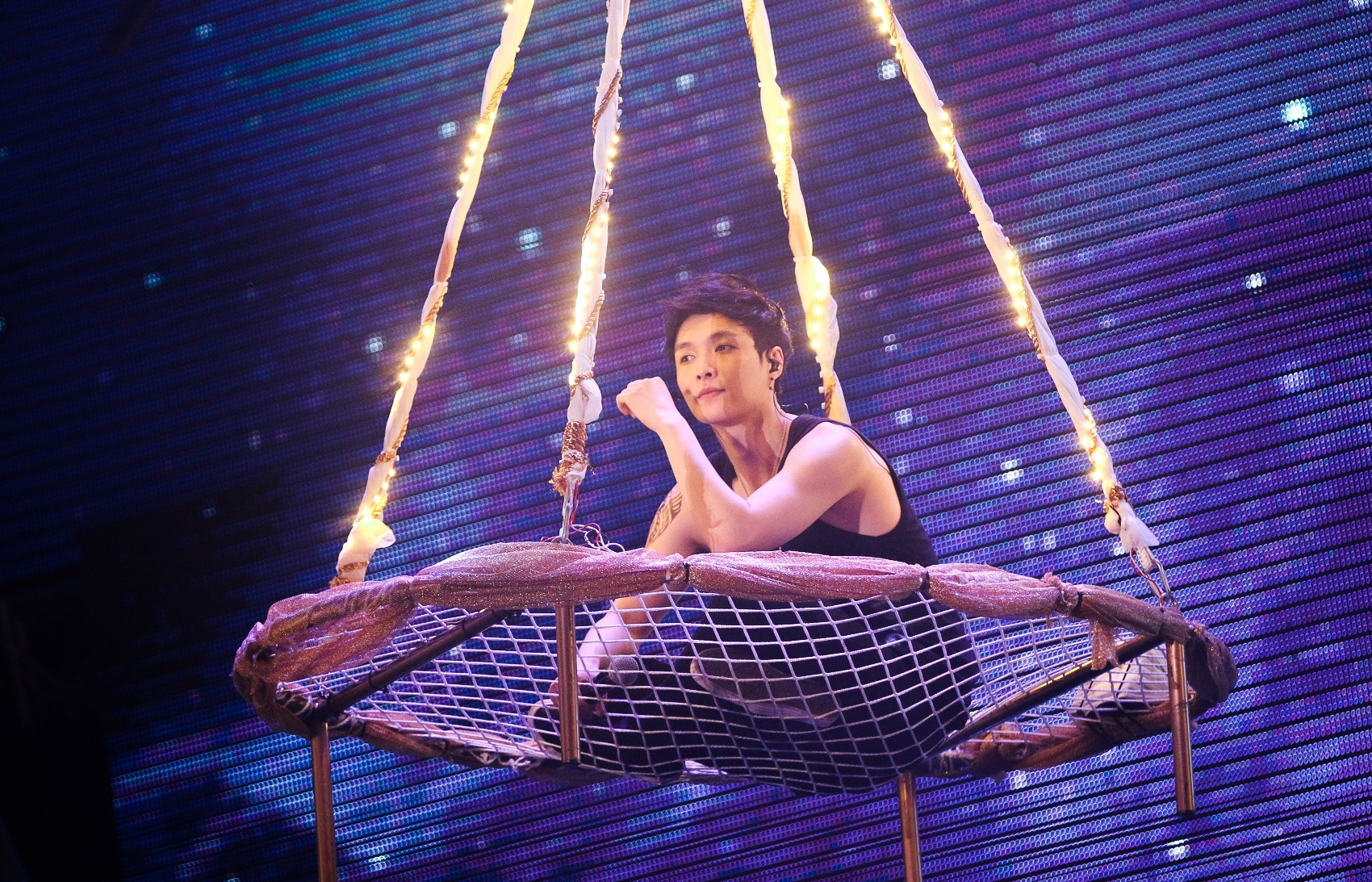 Lay (Zhang Yixing) at the EXO The Lost Planet Concert in Jakarta, Indonesia on 6 september 2014